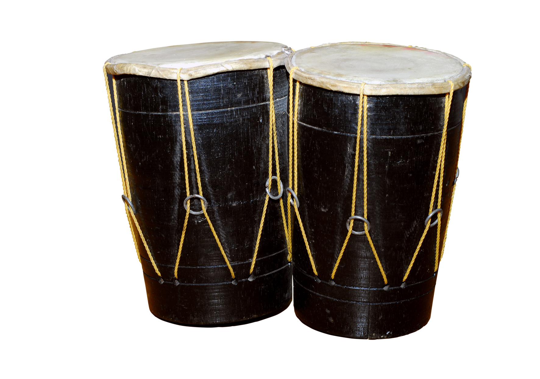 A pair of bongos - percussion instrument